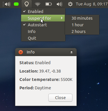 Redshift 1.11 on Ubuntu MATE 17.10 Alpha 2